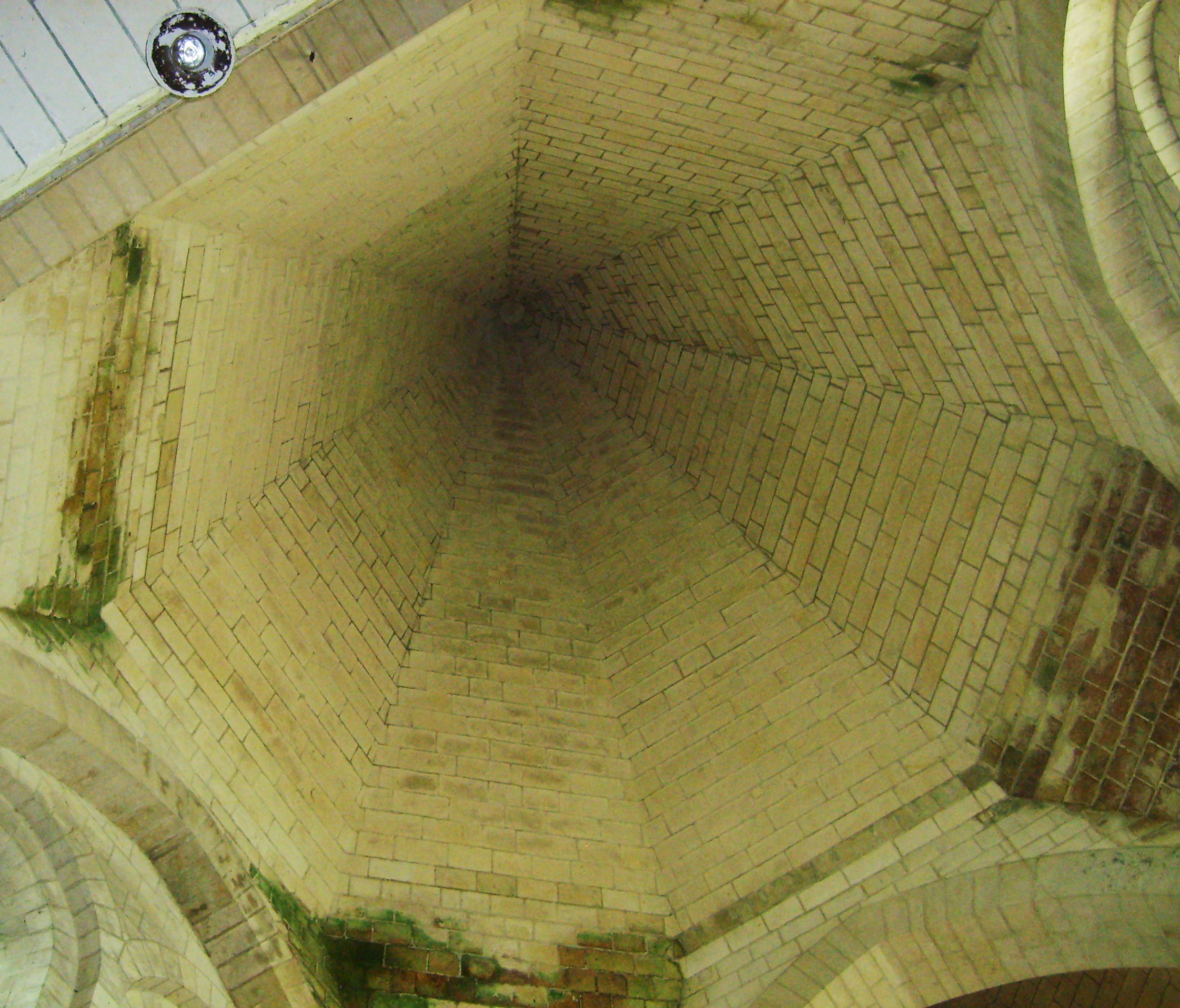 In the Collegiate church of St. Ours in Loches (Indre-et-Loire) in France. Publish by= User:Stephane8888 Self made